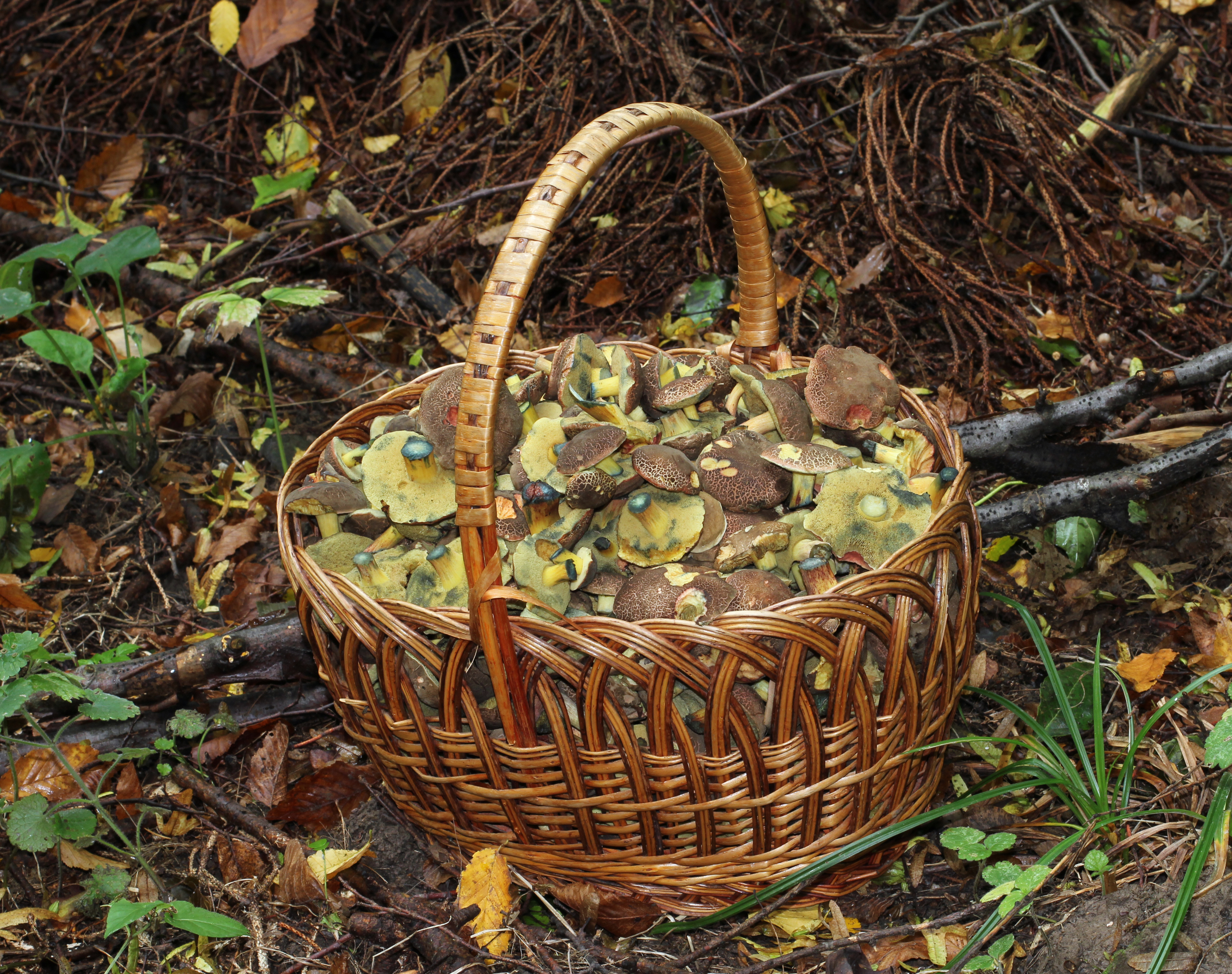 Picked edible fungi Xerocomellus chrysenteron in basket. Trophies of a mushroom hunt. Ukraine.